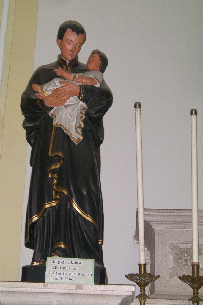 I took this photo on a trip to Macao in 2008